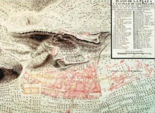 Map of the city of Xàtiva and of the Bixquert Valley (Valencian Community, Spain)